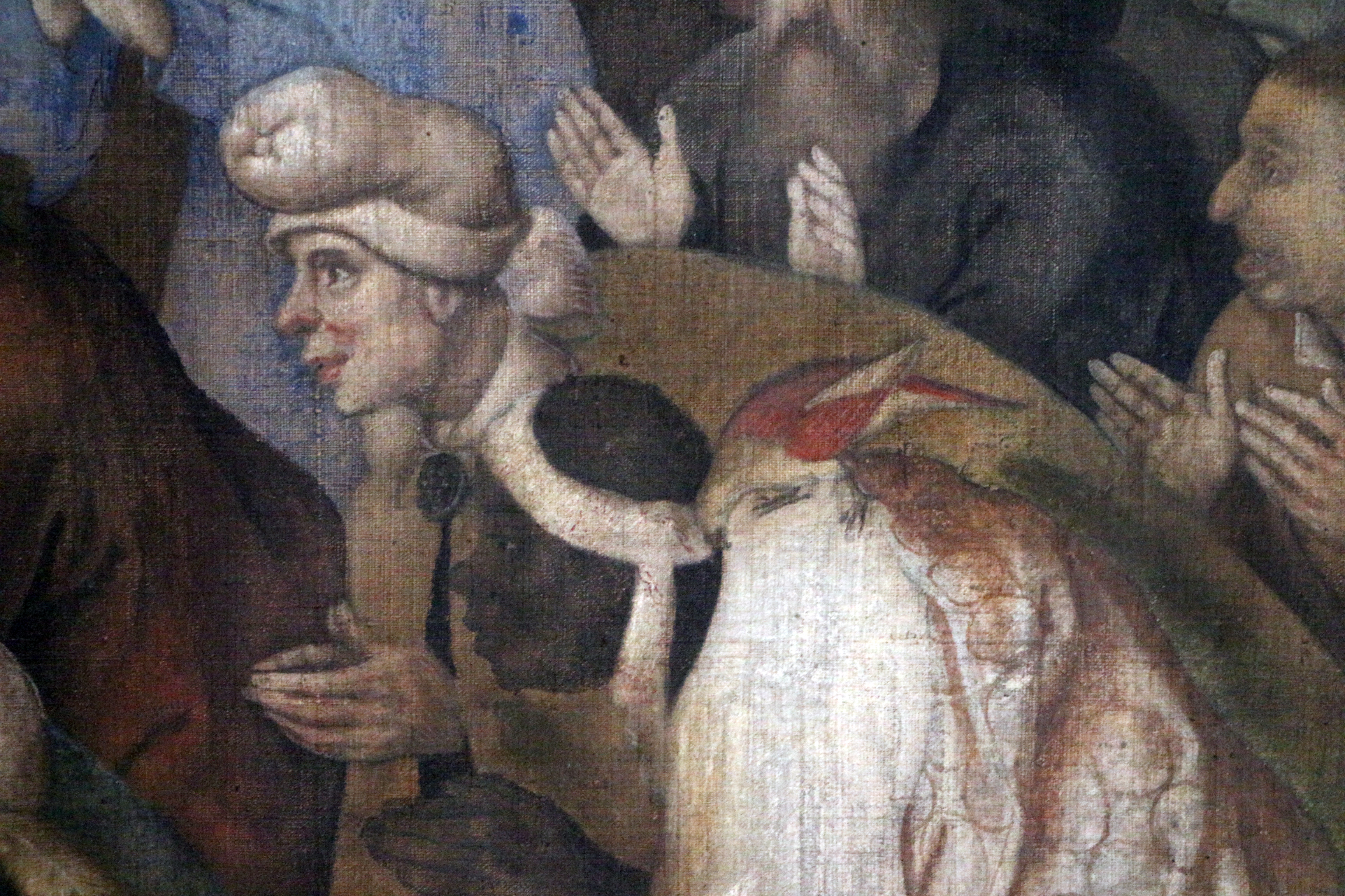 The Adoration of the Kings by Pieter Bruegel the Elder (Royal Museums of Fine Arts of Belgium)